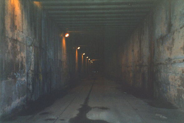 Interior of Kingsway tramway subway, looking south, taken by Nick Cooper 29 April 2004.